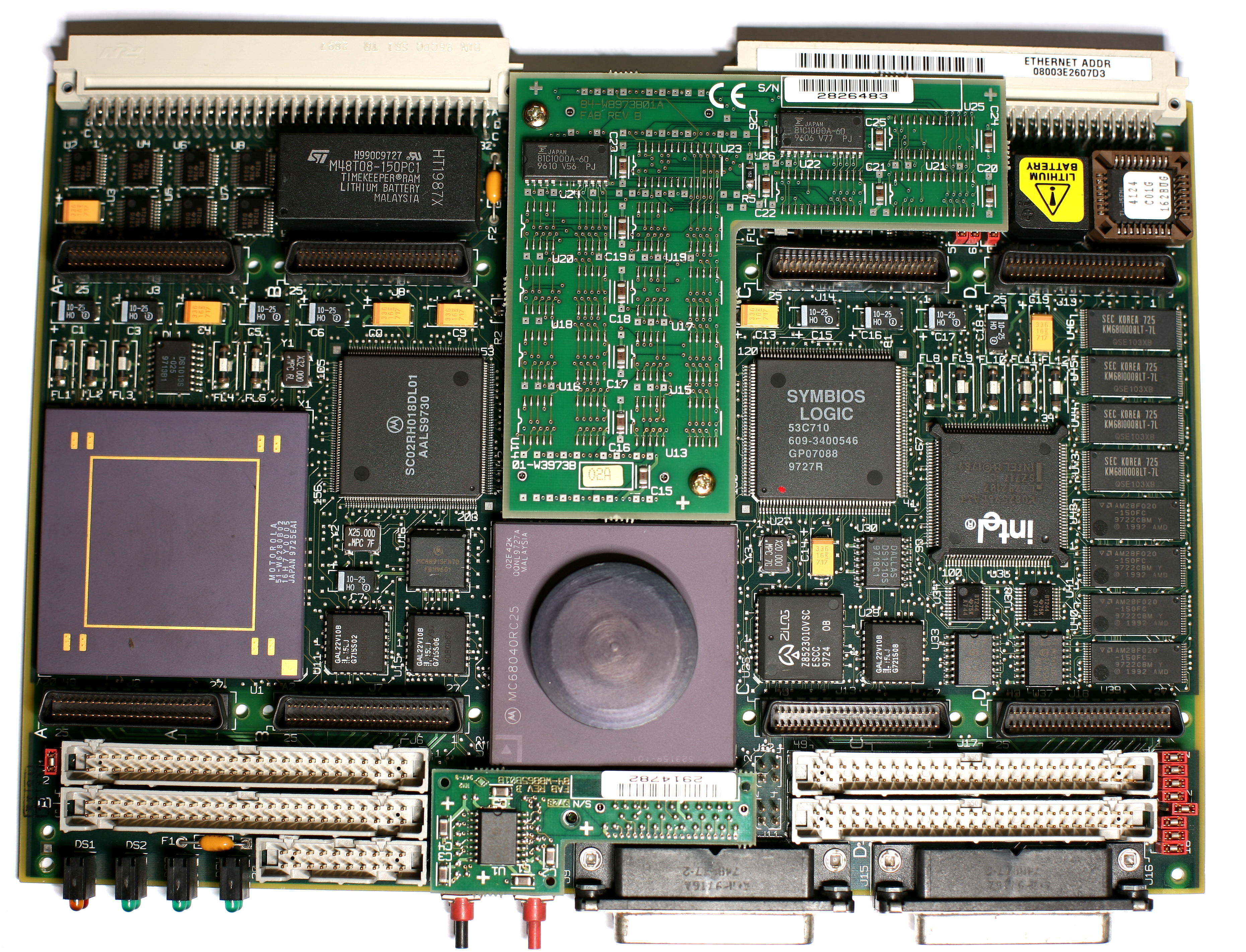 Motorola Single Board Computers Small multi-layer board with all of the memory, interface and support devices. MVME162-023 25 MHz MC68040, 4MB, SCSI, ETHERNET, 4IP